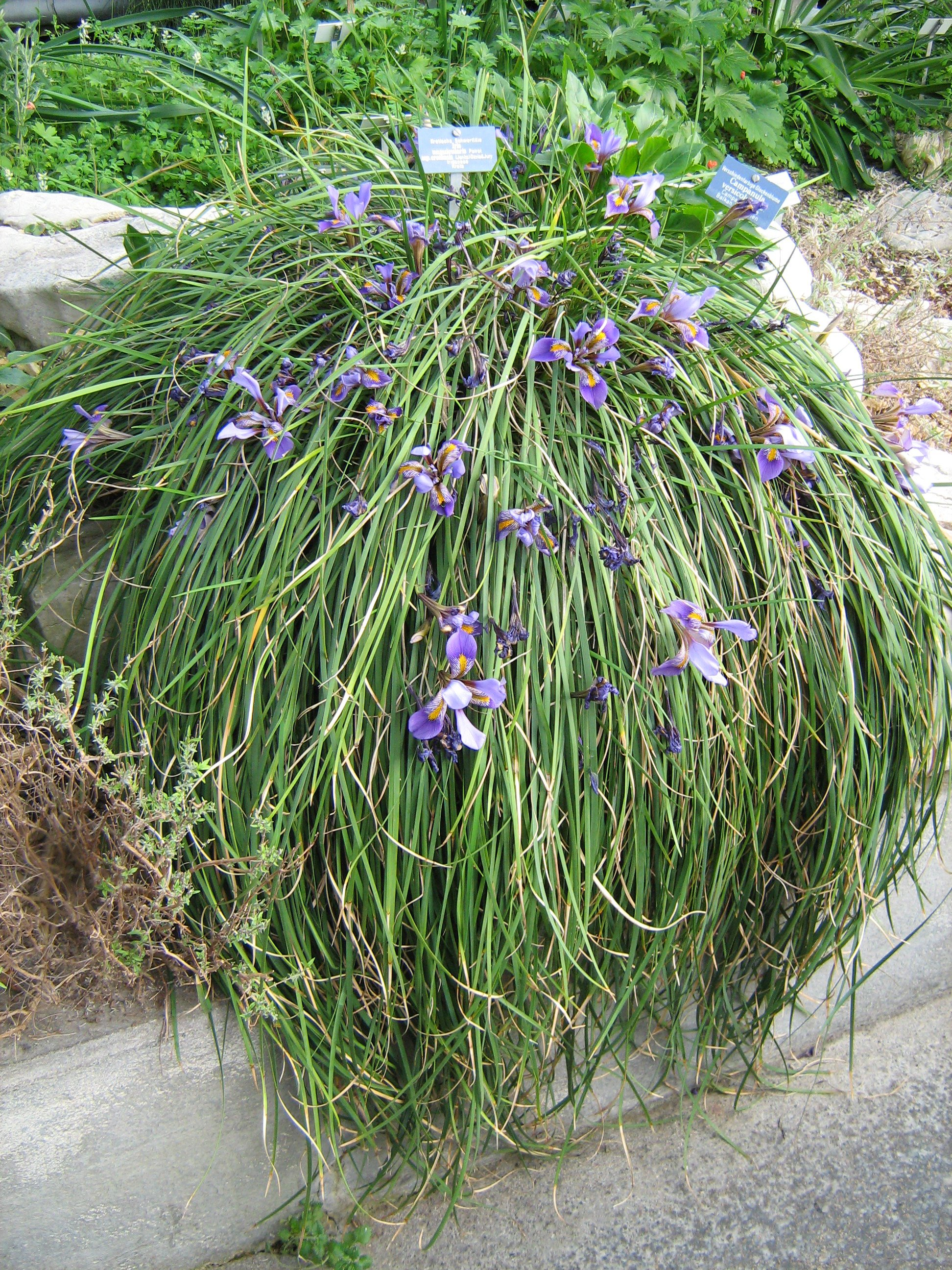 Iris unguicularis in the botanic garden of Berne